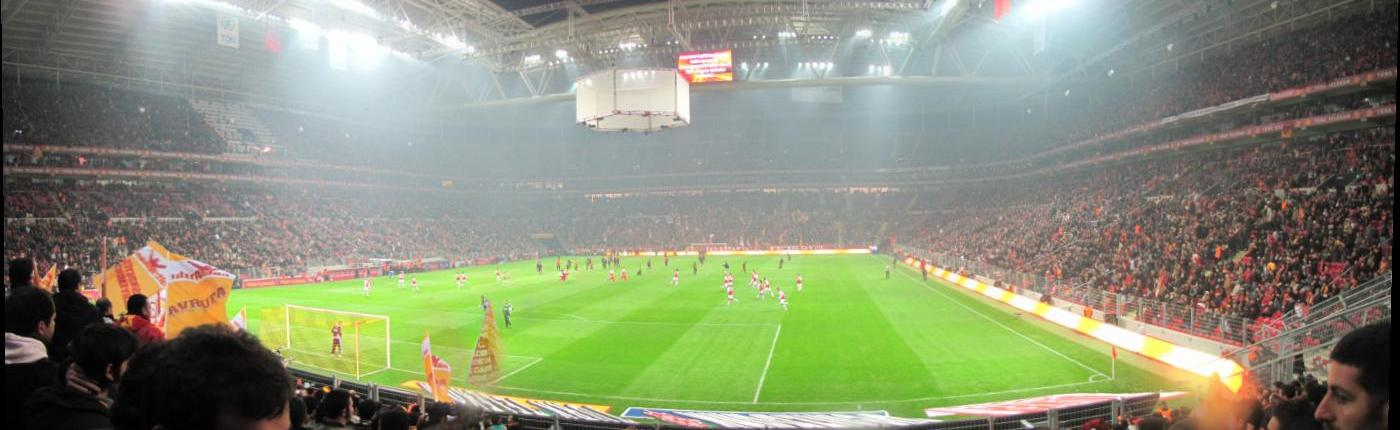 Ali Sami Yen Spor Kompleksi Türk Telekom Arena, Galatasaray 3-0 Liverpool